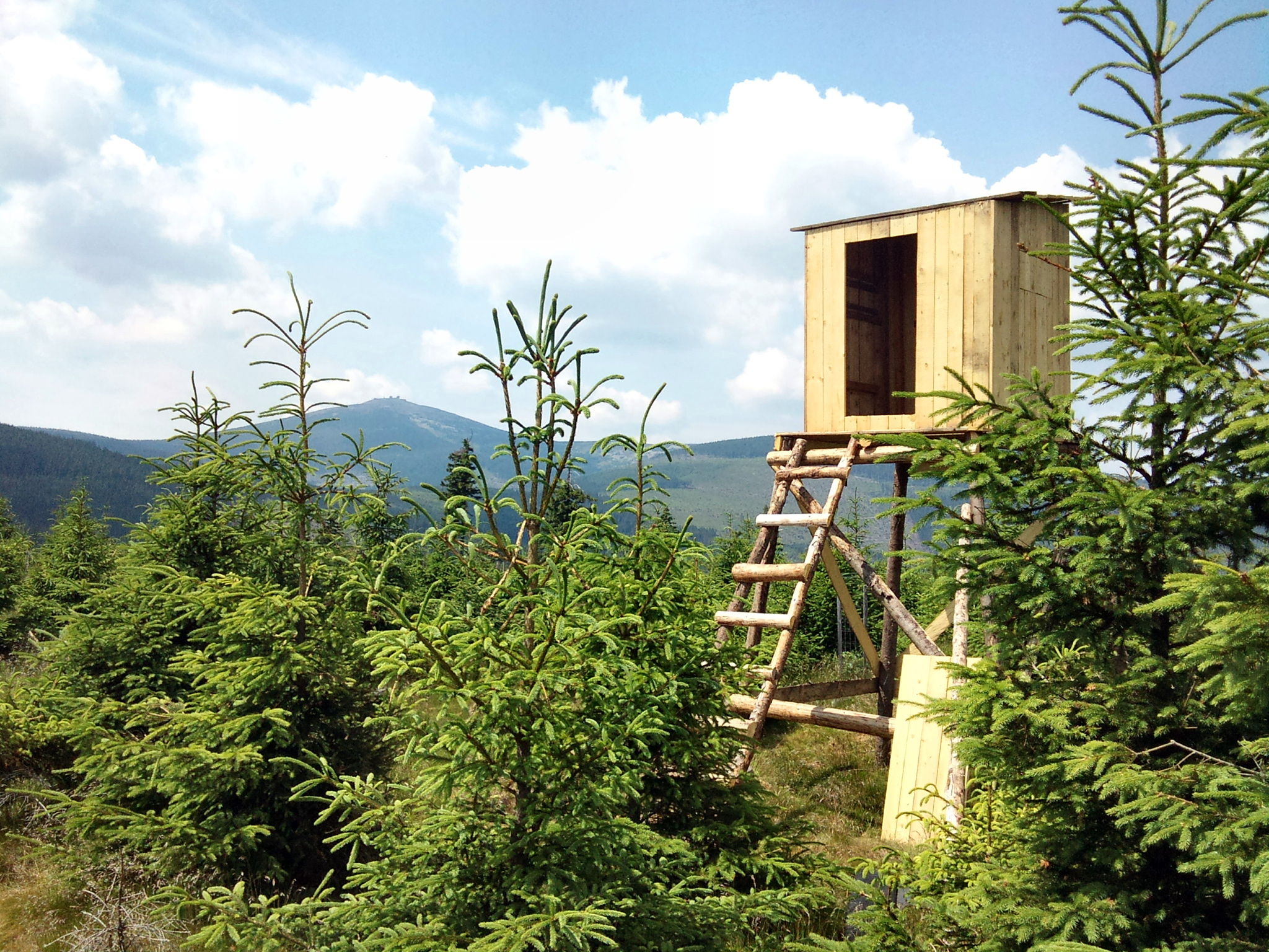 Summit of Kraví hora in the Giant Mountains (Krkonoše) with Sněžka in the background.